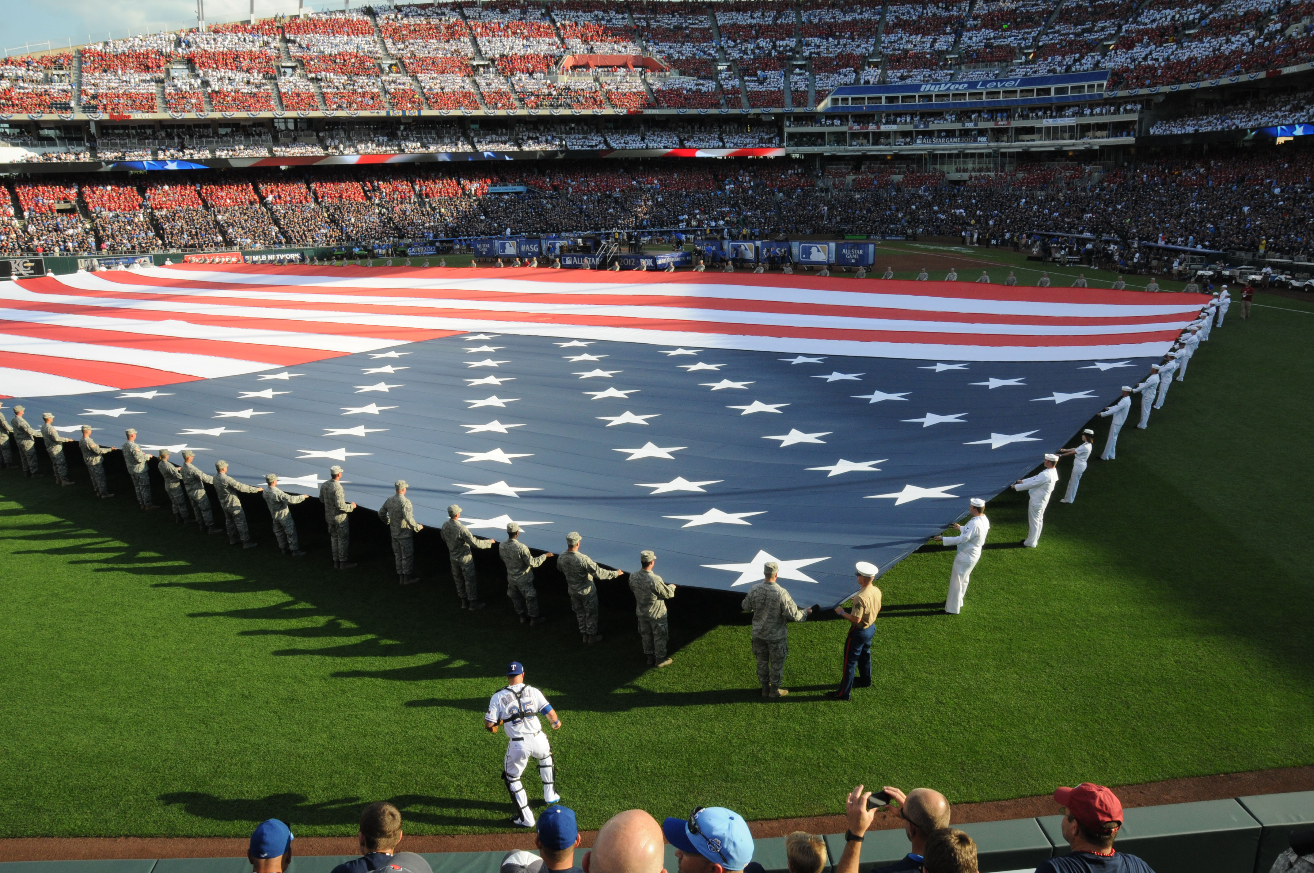 KANSAS CITY, Mo. (July 10, 2012) Sailors assigned to Navy Recruiting District Saint Louis and Navy Operational Support Center, Kansas City, along with Airman assigned to Whitman Air Force Base present a giant American flag before the 2012 major league baseball All-Star Game. More than 30 Sailors and 45 Airman will hold the flag during the singing of the National Anthem and pregame events. (U.S. Navy photo by Mass Communication Specialist 1st Class Jason C. Winn/Released)